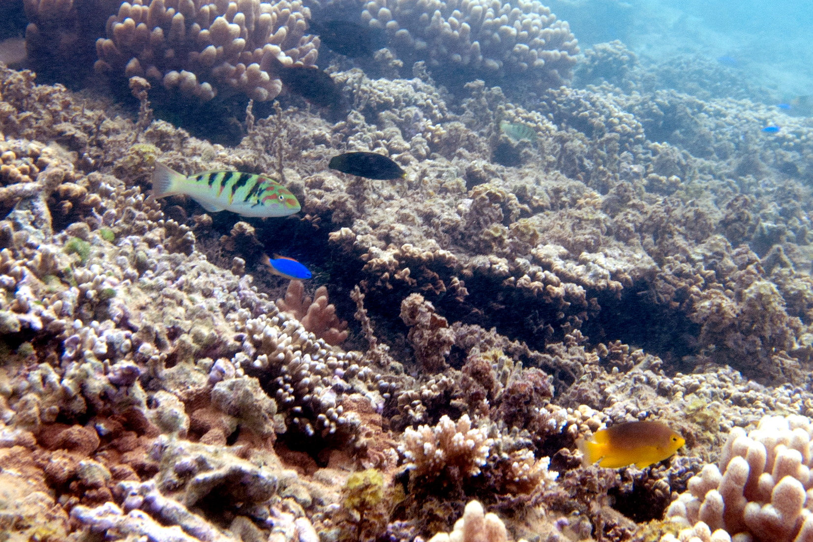 with, in decreasing visibility, south seas devil Chrysiptera taupou, tubelib wrasse Labrichthys unilineatus, bullethead parrotfish Chlorurus sordidus, and striped bristletooth Ctenochaetus striatus